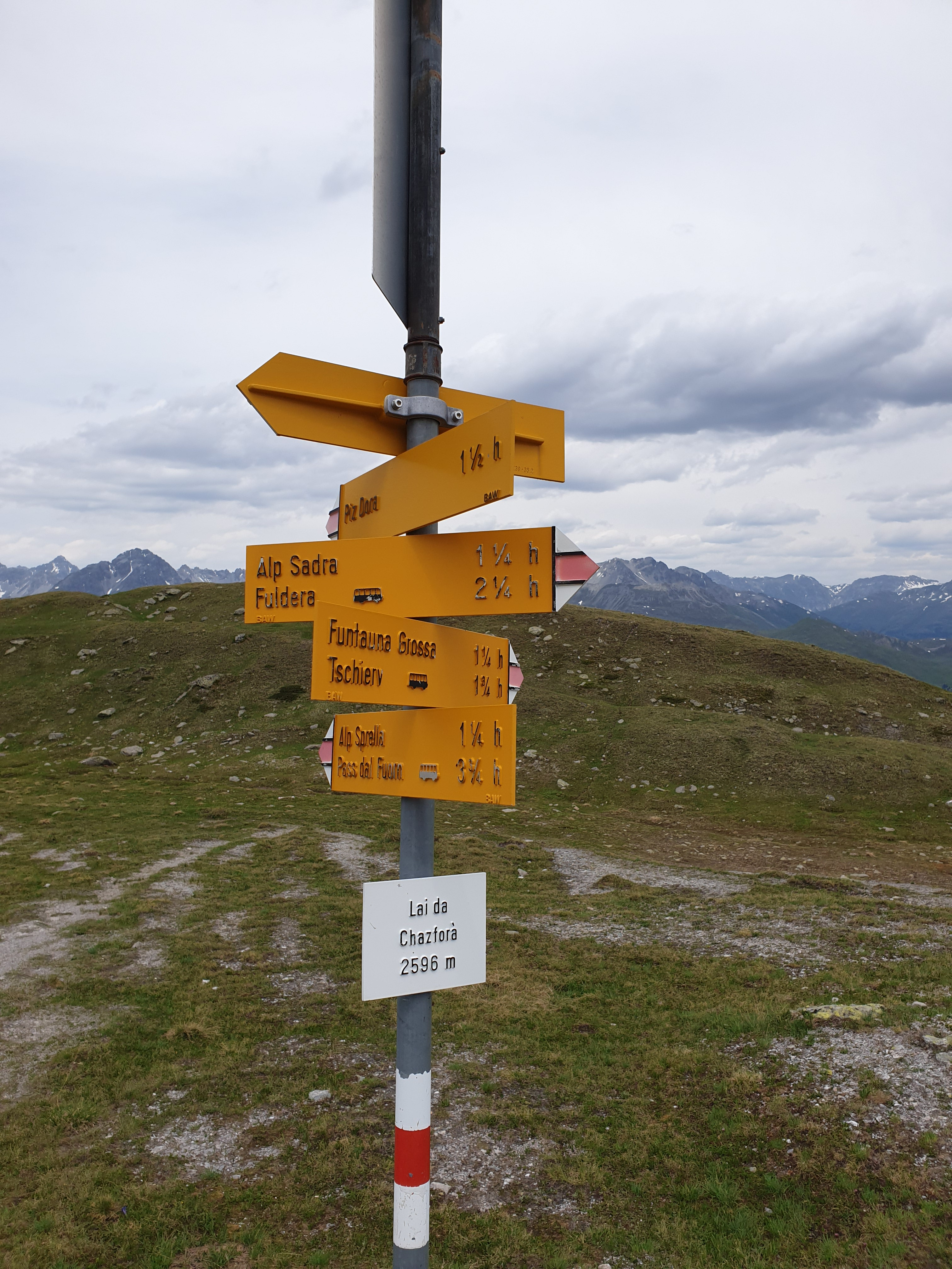 Fingerpost near Lai da Chazfora (Val Müstair, Grison, Switzerland)